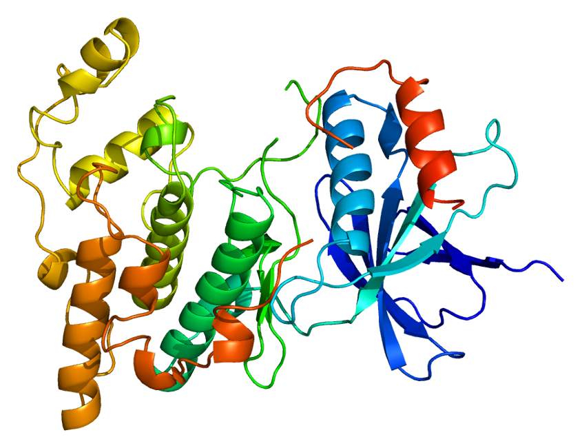 Structure of the MAPK8 protein. Based on PyMOL rendering of PDB 1jnk.